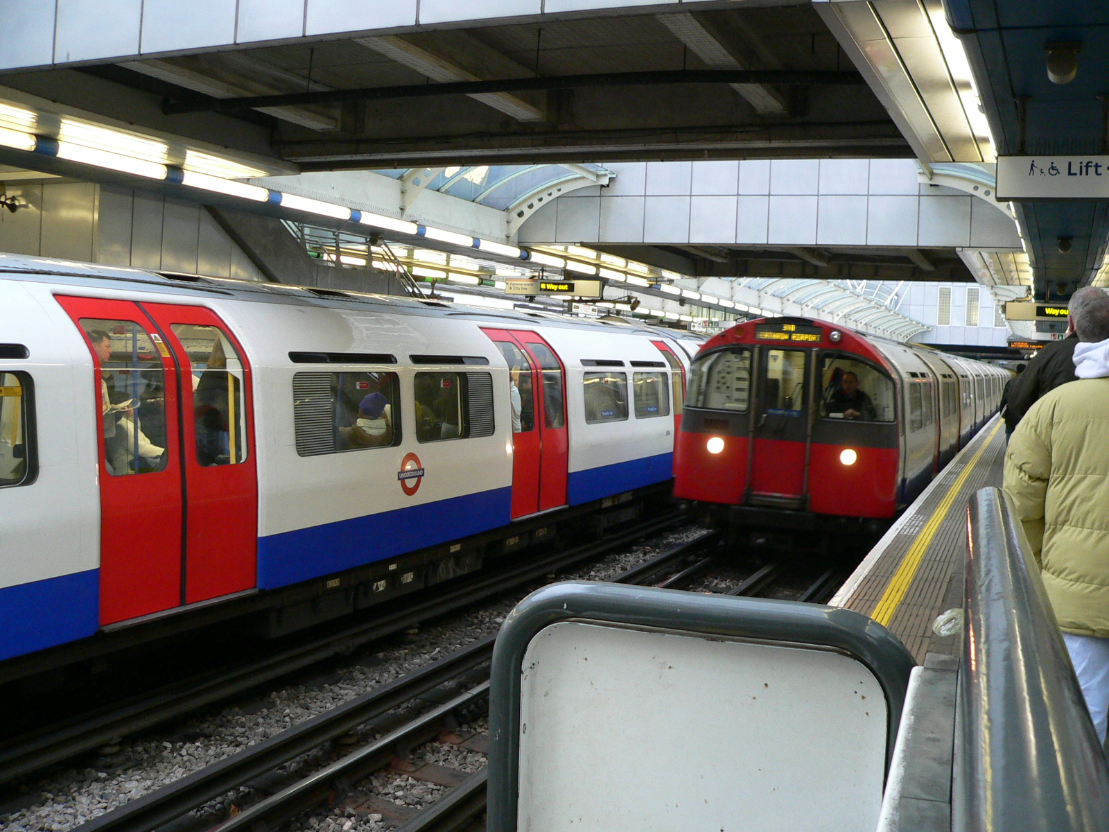 Two London Underground 1973 stock EMU Piccadilly Line trains at Hammersmith (District and Piccadilly Line) tube station, the one on the right is heading for Heathrow Airport.